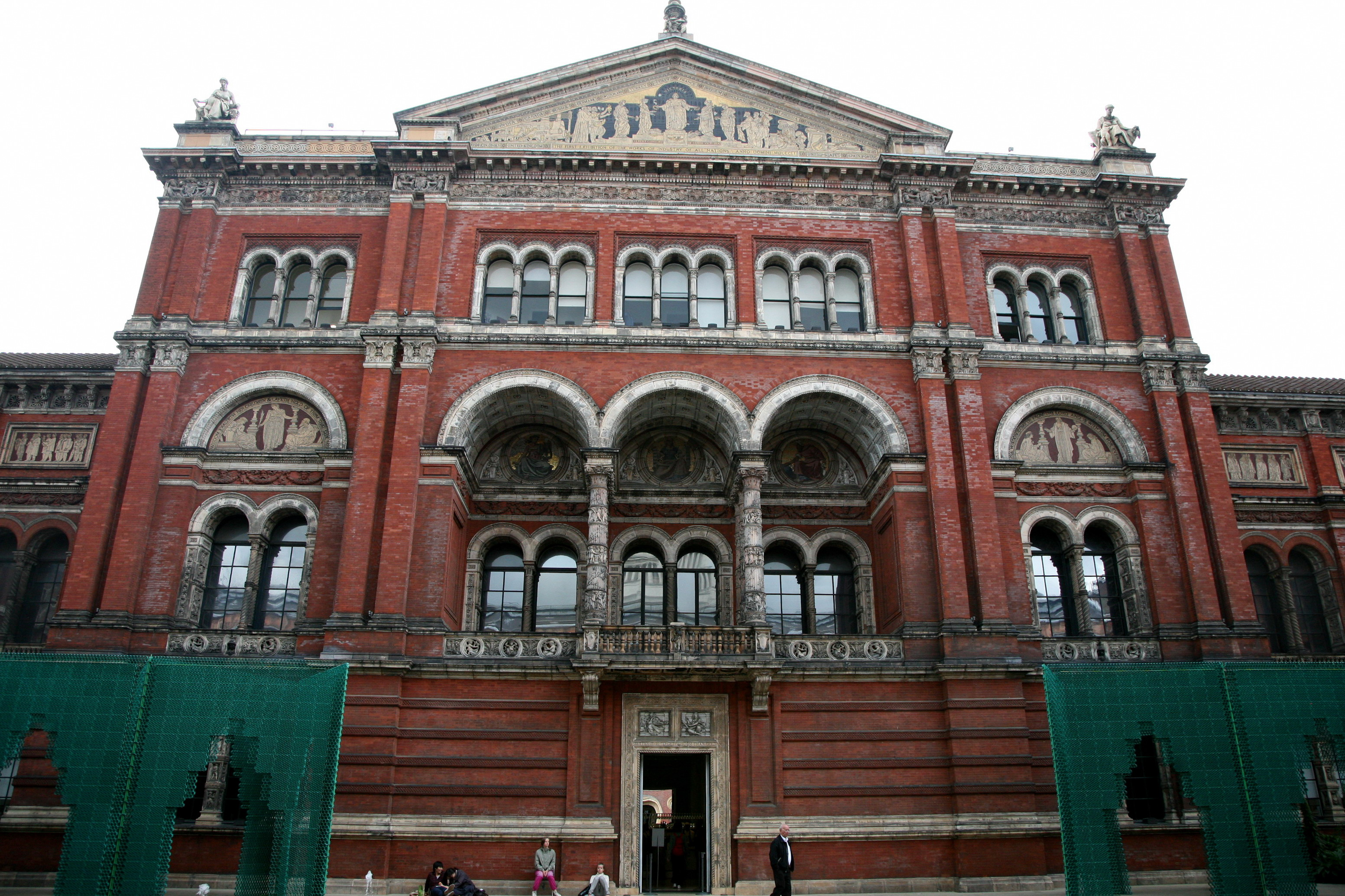 At Victoria and Albert Museum, London, England.